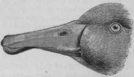 General characterisitics of blueduck bill.